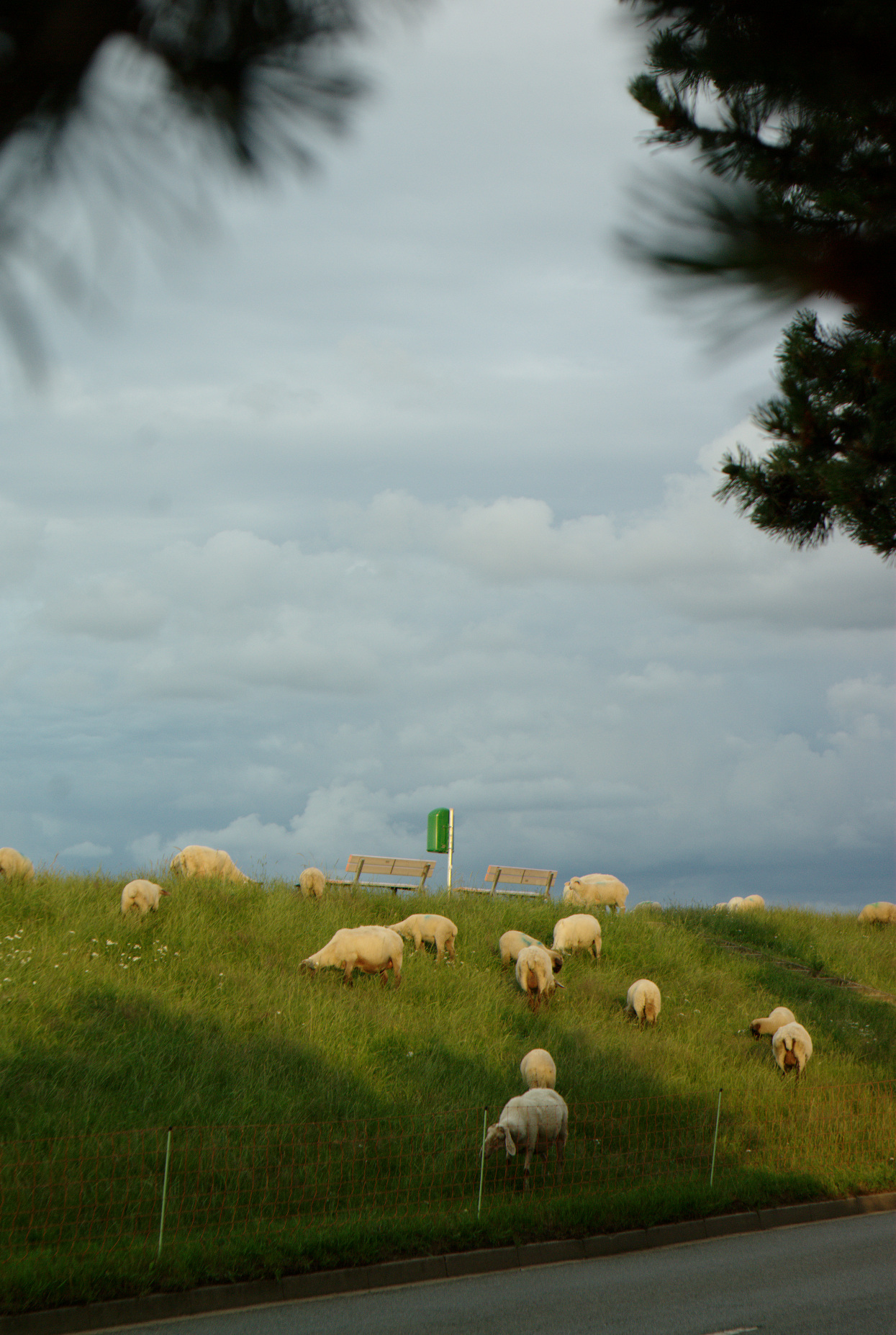 Elbe-Dike in Over, Seveetal. With grazing Sheep.